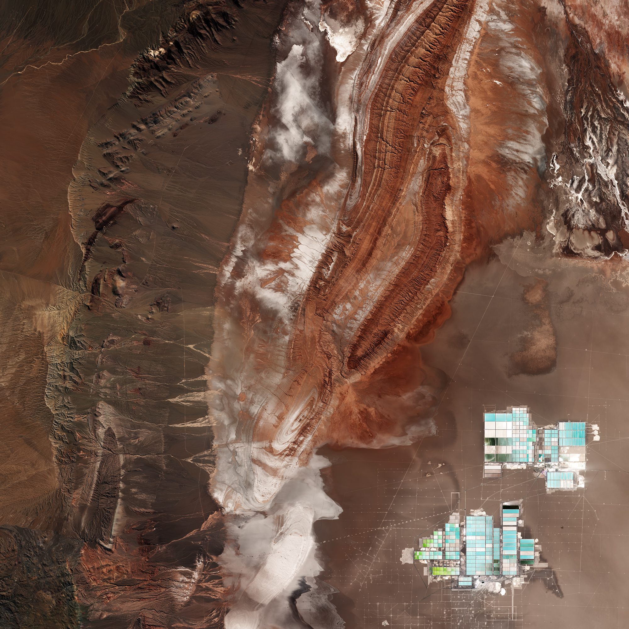 From the Salar de Atacama salt flat in the east to the Cordillera Domeyko mountains in the west, Sentinel-2 takes us over part of the Atacama Desert in northern Chile. The desert runs along part of South America’s central west coast. It is considered one of the driest places on Earth. Being a ‘coastal desert’, the cold, upwelling waters in the Pacific Ocean inhibit rain from reaching the land. Instead, the winds that blow from the ocean bring fog. Because of the Atacama plateau’s high altitude, low cloud cover and lack of light pollution, it is one of the best places in the world to conduct astronomical observations and home to two major observatories. Some areas of the desert have been compared to the planet Mars, and have been used as a location for filming scenes set on the red planet. ESA has even tested a self-steering rover in the Atacama, which was selected for its similarities to martian conditions. In the lower right, the geometric shapes of large evaporation ponds dominate the Salar de Atacama –Chile’s largest salt flat. At about 3000 sq km, it is the world’s third largest salt flat as well as one of the largest active sources of lithium. From evaporation ponds like the ones pictured here, lithium bicarbonate is isolated from salt brine. Lithium is used in the manufacturing of batteries, and the increasing demand has significantly increased its value in recent years – especially for the production of electric-car batteries. This image, also featured on theEarth from Space video programme, was captured by the Copernicus Sentinel-2A satellite on 29 April 2017.